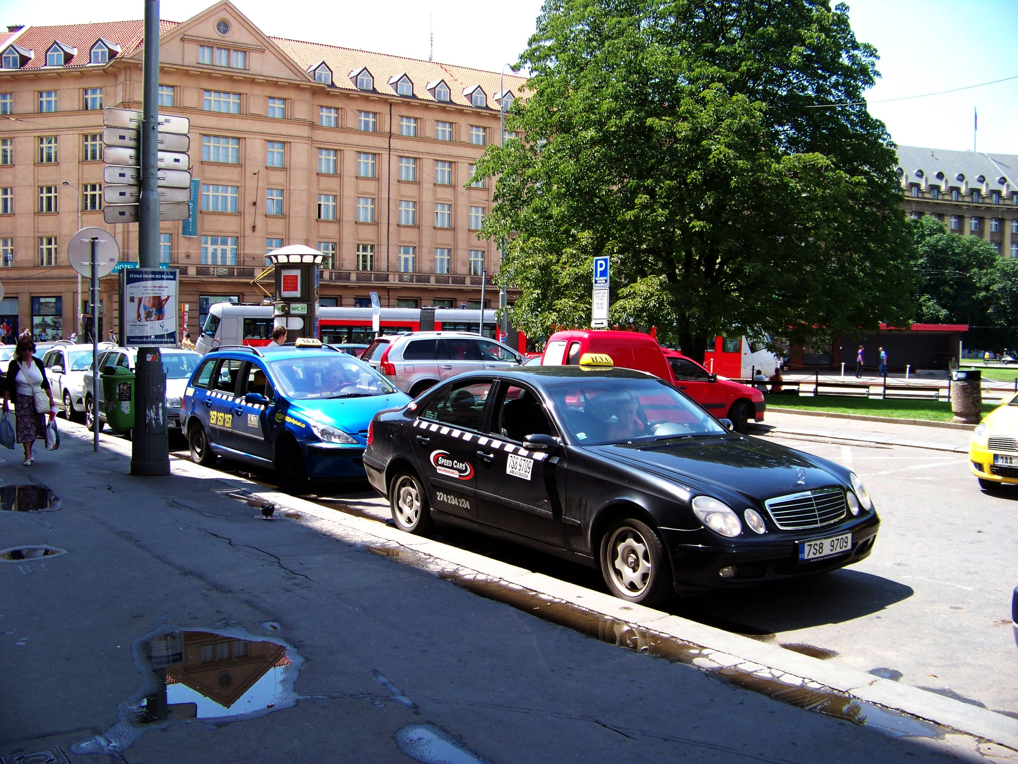 Prague-Dejvice, the Czech Republic. Vítězné Square, a taxicab stand.